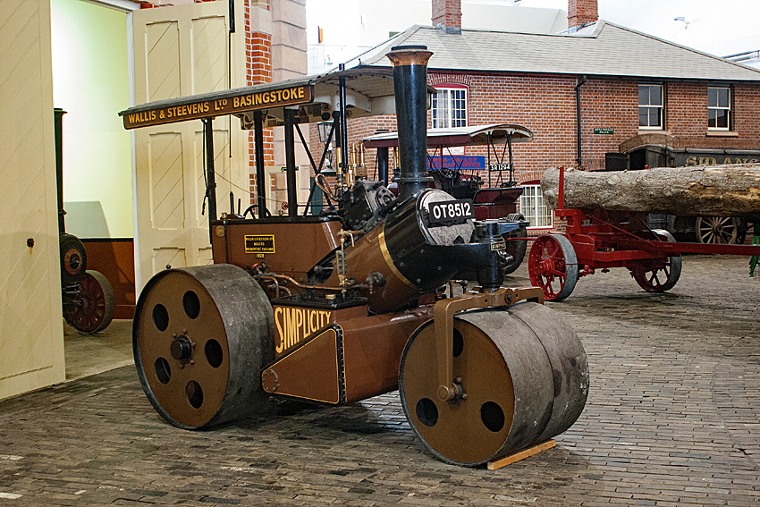 Wallis and Steevens 1928 Simplicity steam roller at the Milestones museum. Registration number OT 8512